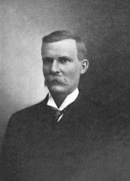 Portrait of Lemuel H. Redd Jr. from Utah Since Statehood: Historical and Biographical, Volume IV, 1920, page 153